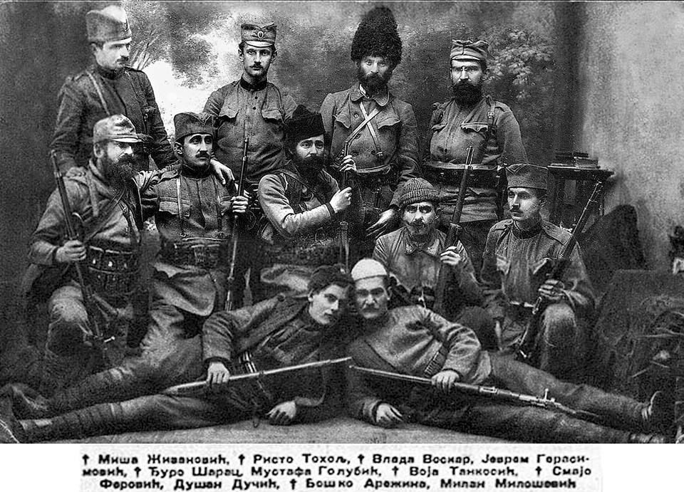 Serbian Chetnik Voivode Vojislav Tankosić with his band during the Balkan Wars. Standing: Miša Živanović • Risto Toholj • Vlada Voskar • Jevrem Gerasimović Kneeling: Đuro Šarac • Mustafa Golubić • Vojislav Tankosić • Smajo Ferović • Dušan Dučić Laying: Boško Arežina • Milan Milošević